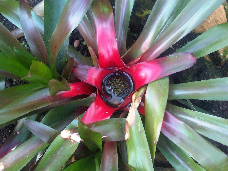 Neoregelia carolinae in Kew Gardens, England.